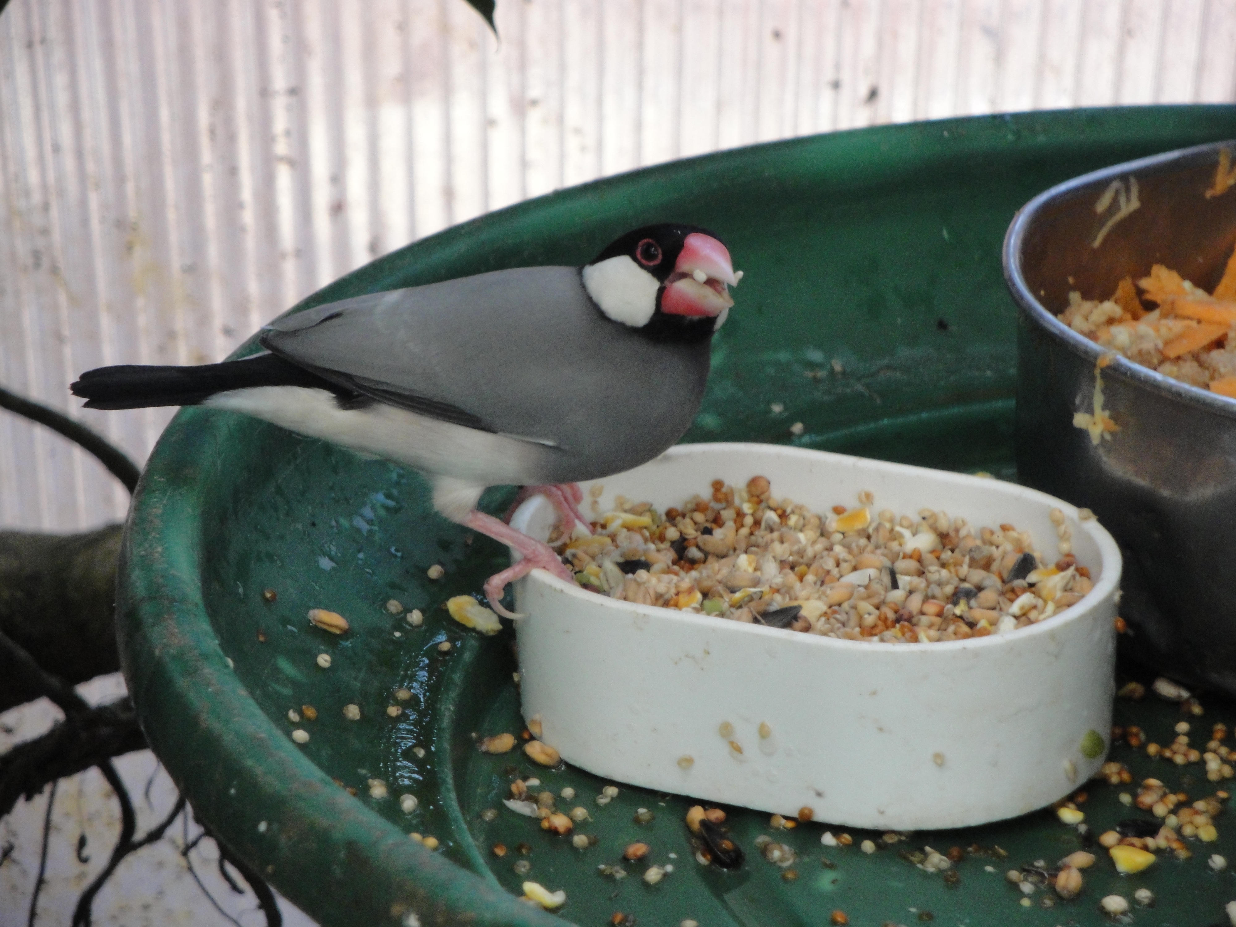 Amazon World Zoo, Isle of Wight